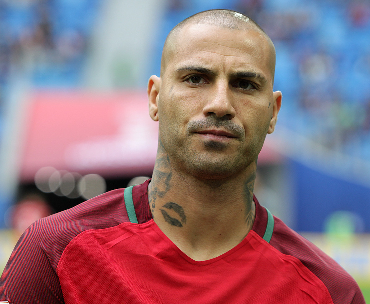 New Zealand VS. Portugal 0 - 4, 24 June 2017